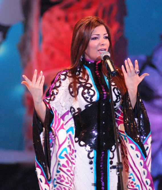 Asalah Nasri is considered by many as the one of the most important Syrian artists of the past two decades.